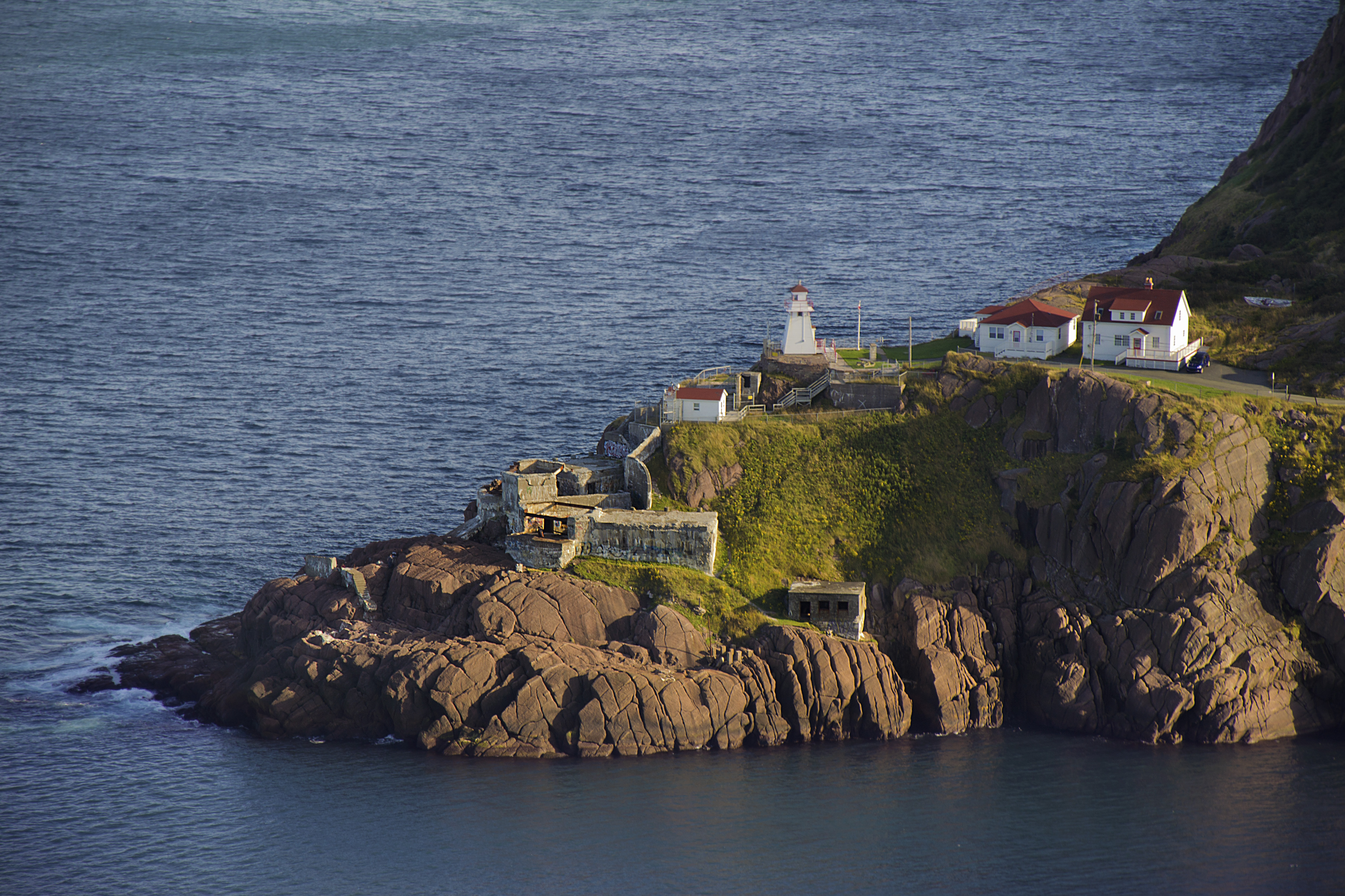 Photo of Fort Amherst, National Historic Site of Canada, located in St. John's, Newfoundland and Labrador, Canada.